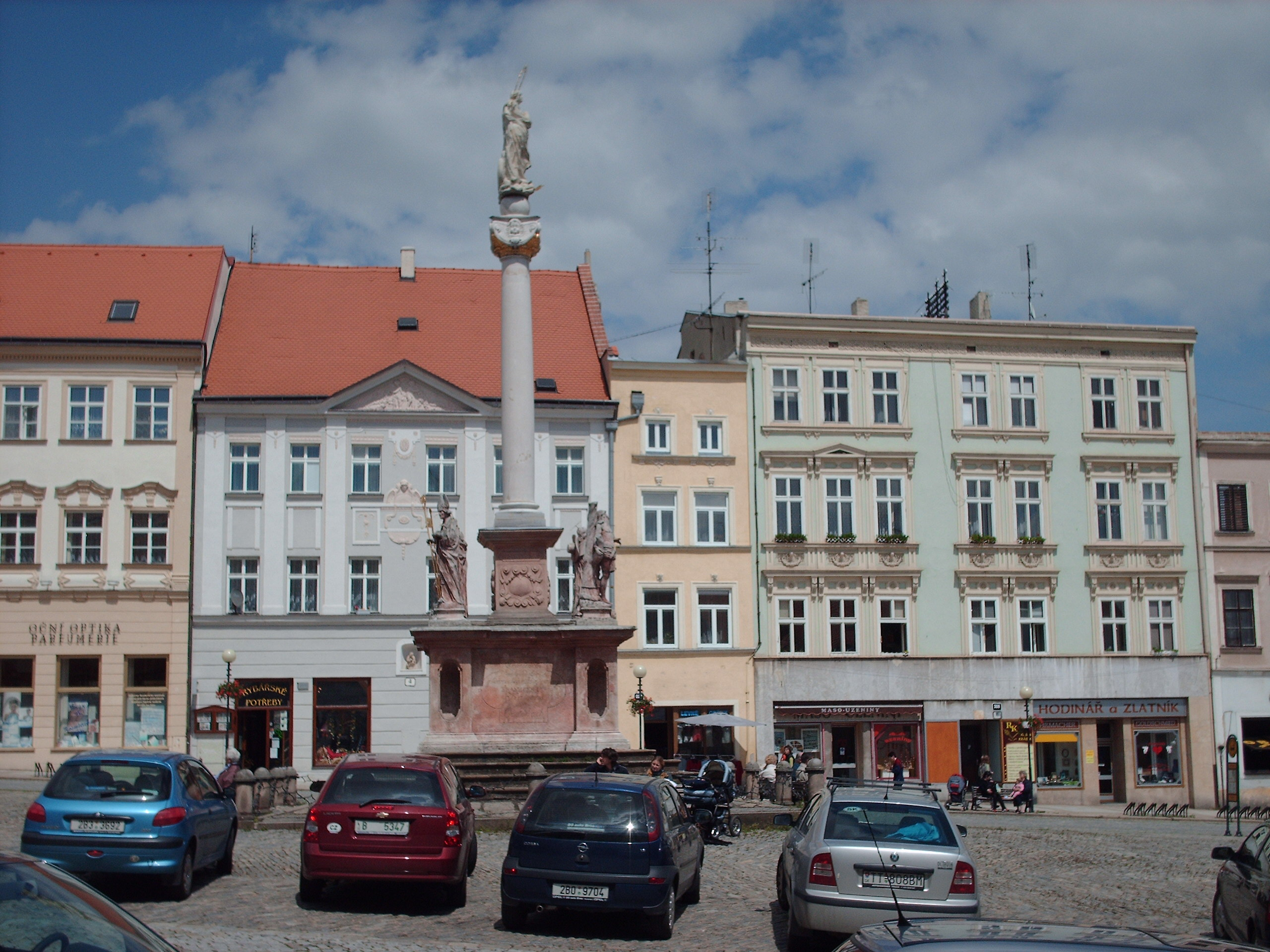 The historic centre of Znojmo (Znaim in German). The picture was taken from Czech Wikipedia. Its author, Häsk, made it on 5th June 2006.